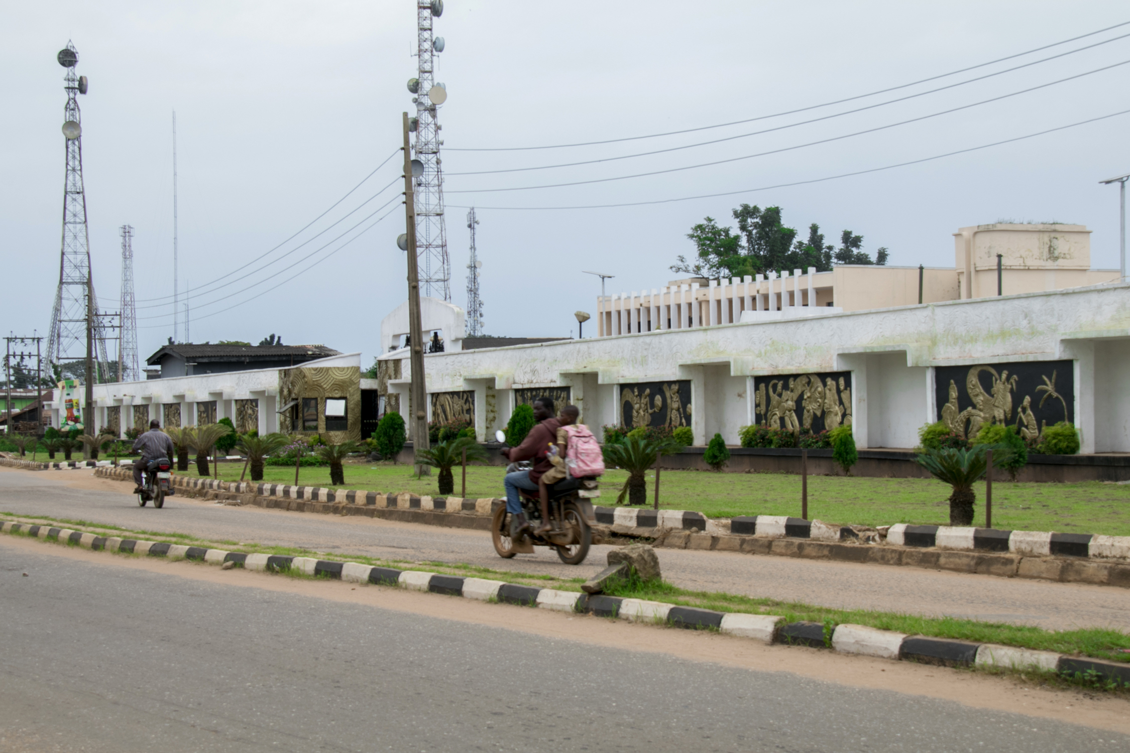 Front view of Oba ijebu ode palace